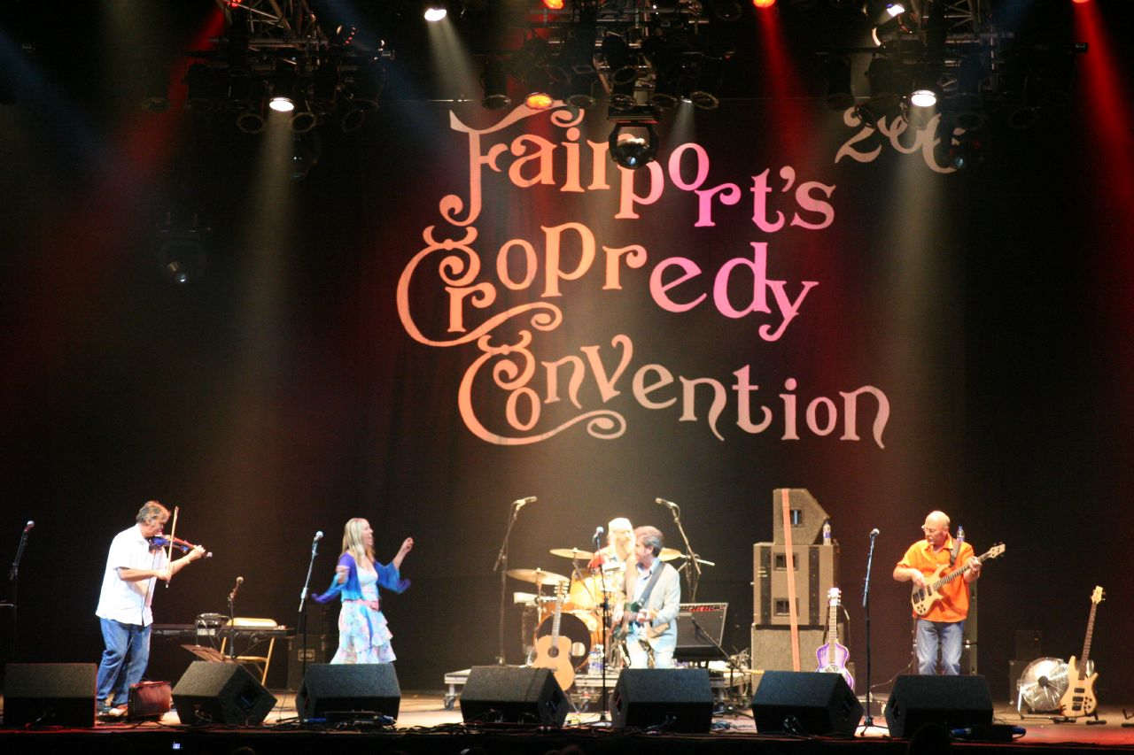 Steeleye Span at Fairport's Cropredy Convention 2006